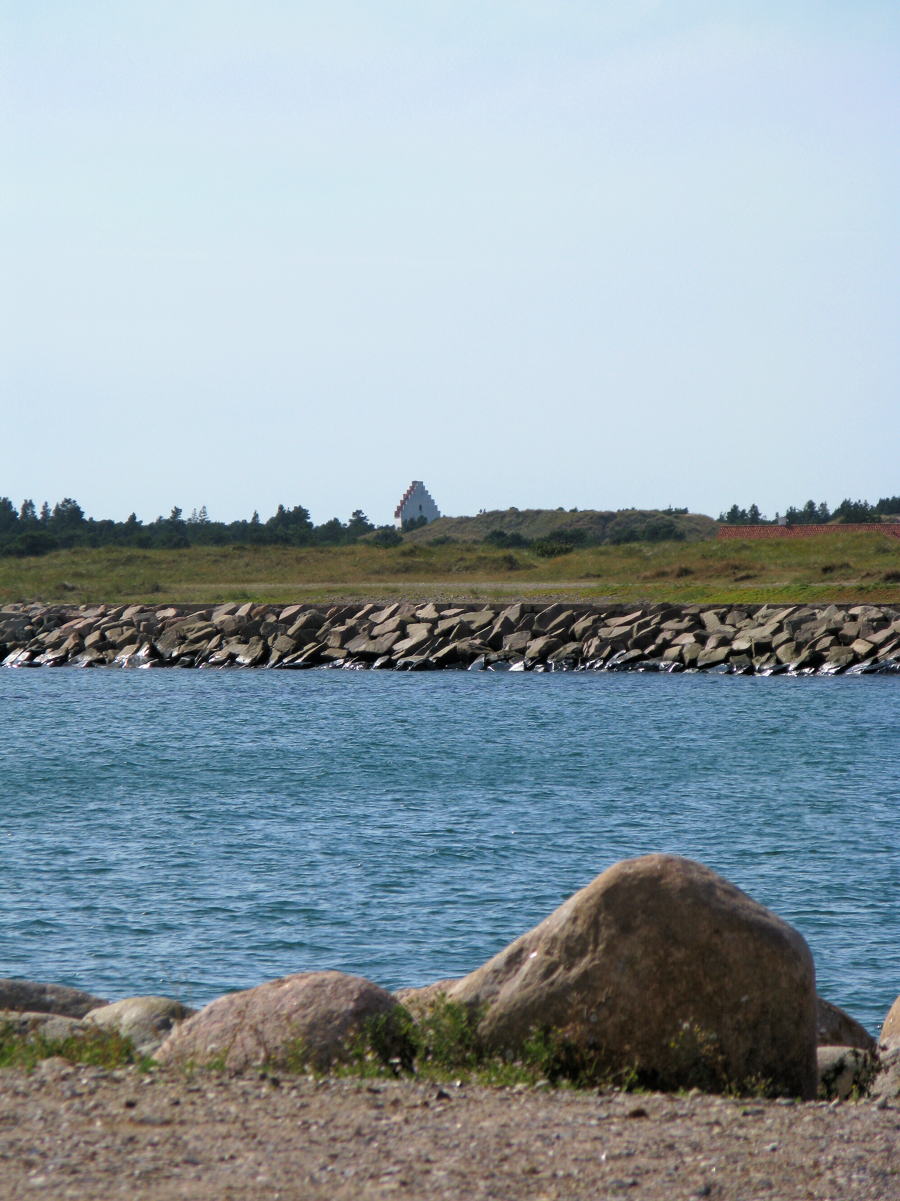 The Sand-Covered Church (Danish: Den Tilsandede Kirke), seen from the harbour of Skagen